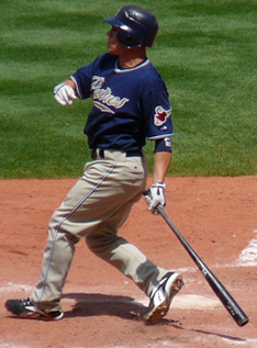 Picture I took of Marcus Giles on 5-10-07 23:33,13 May 2007 . . Chrisjnelson . . 234×318 (127,672 bytes)